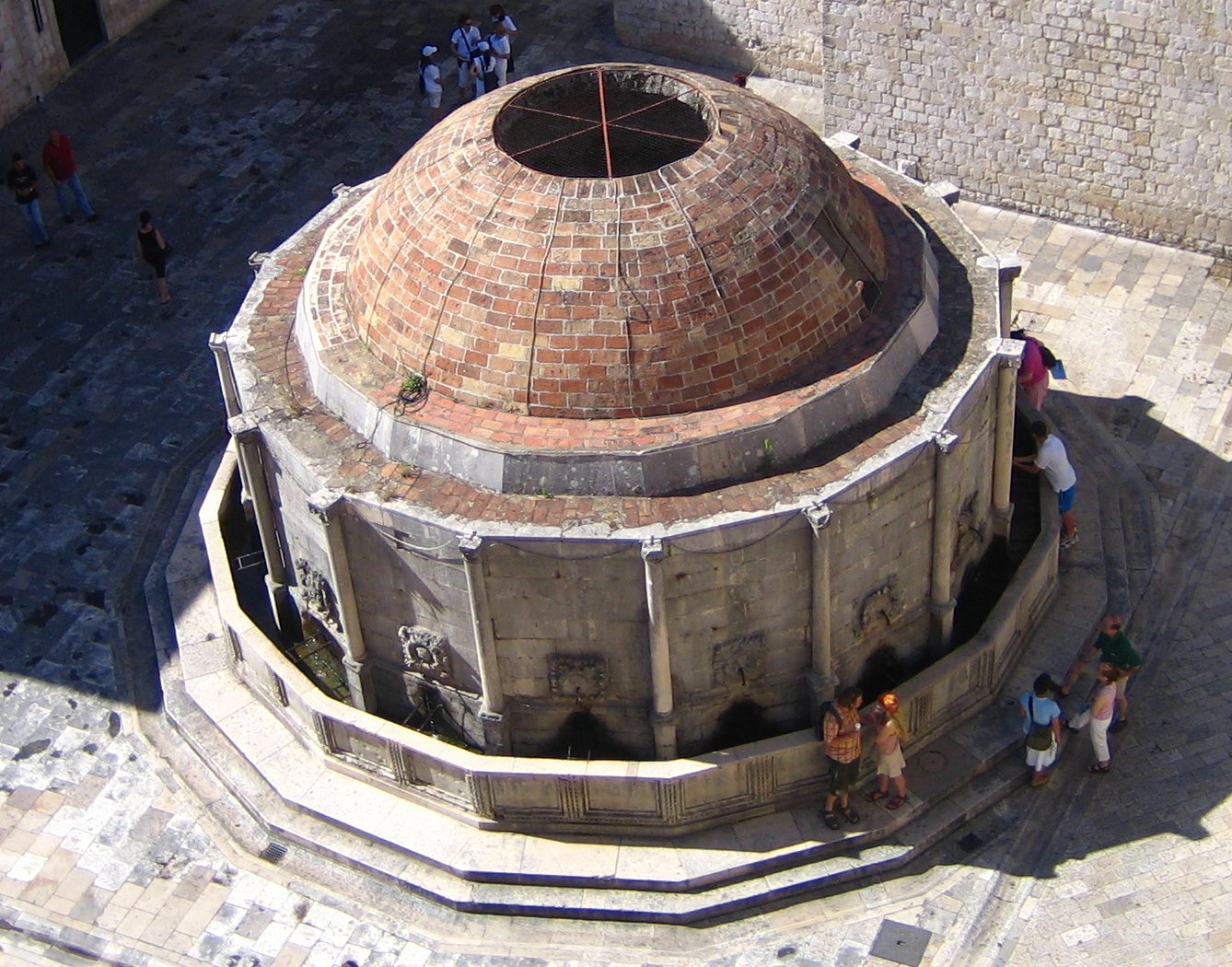 Great Onufrio well in Dubrovnik